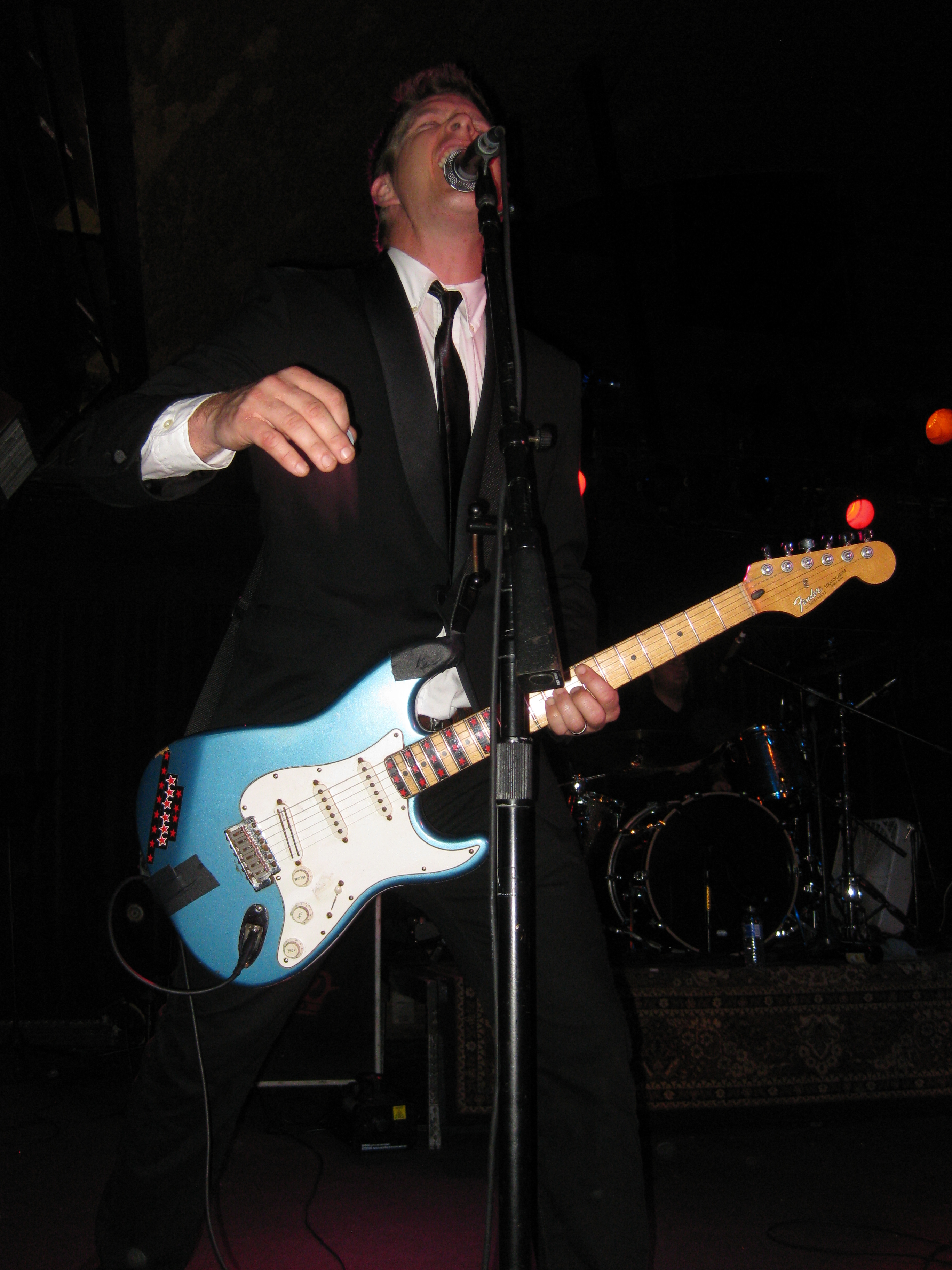 Guitarist Eric Davis of Agent 51 performing January 20, 2012 at the Belly Up tavern in Solona Beach, California.